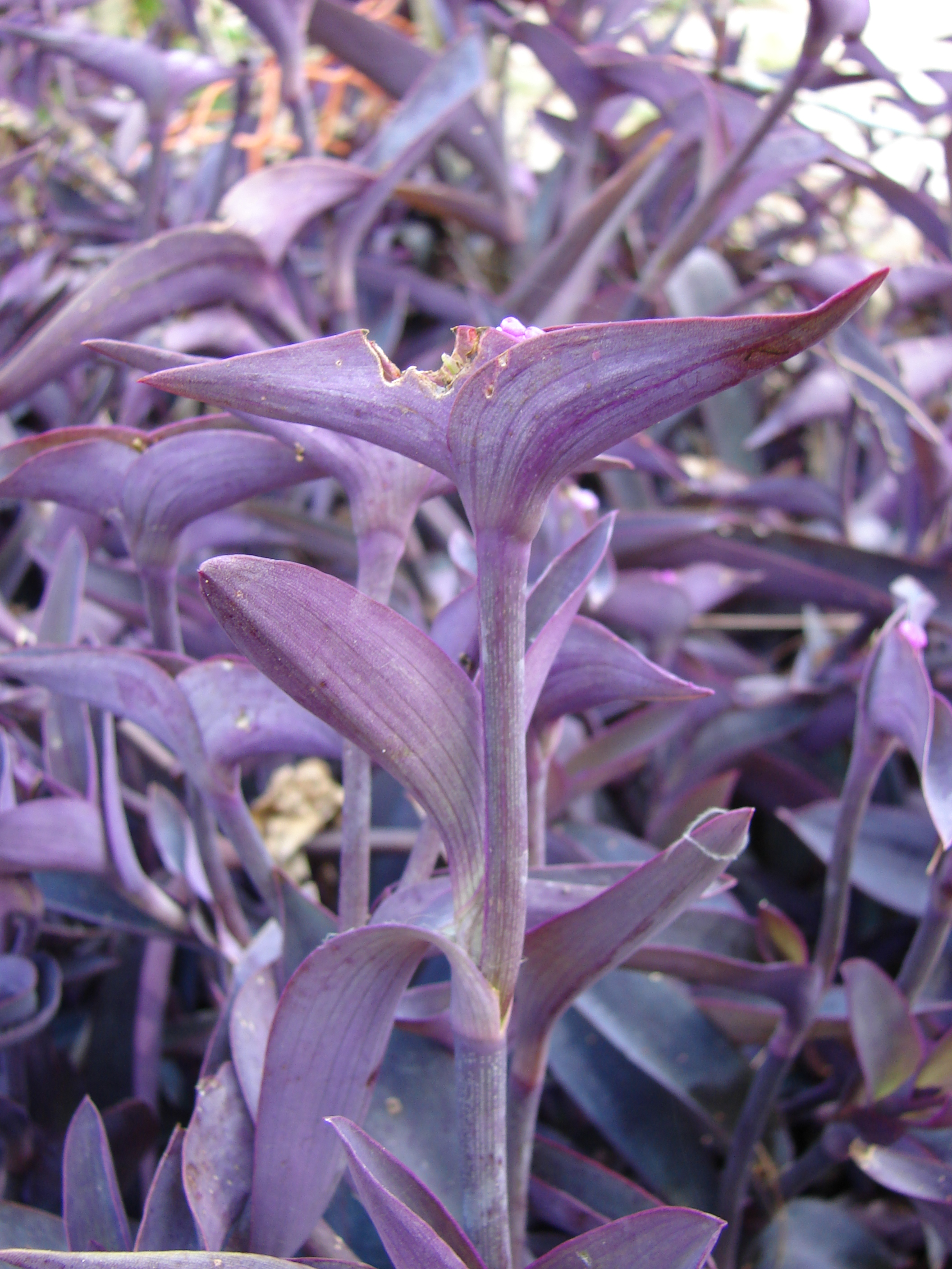 Tradescantia pallida (habit). Location: Midway Atoll, Halsey Dr around residences Sand Island